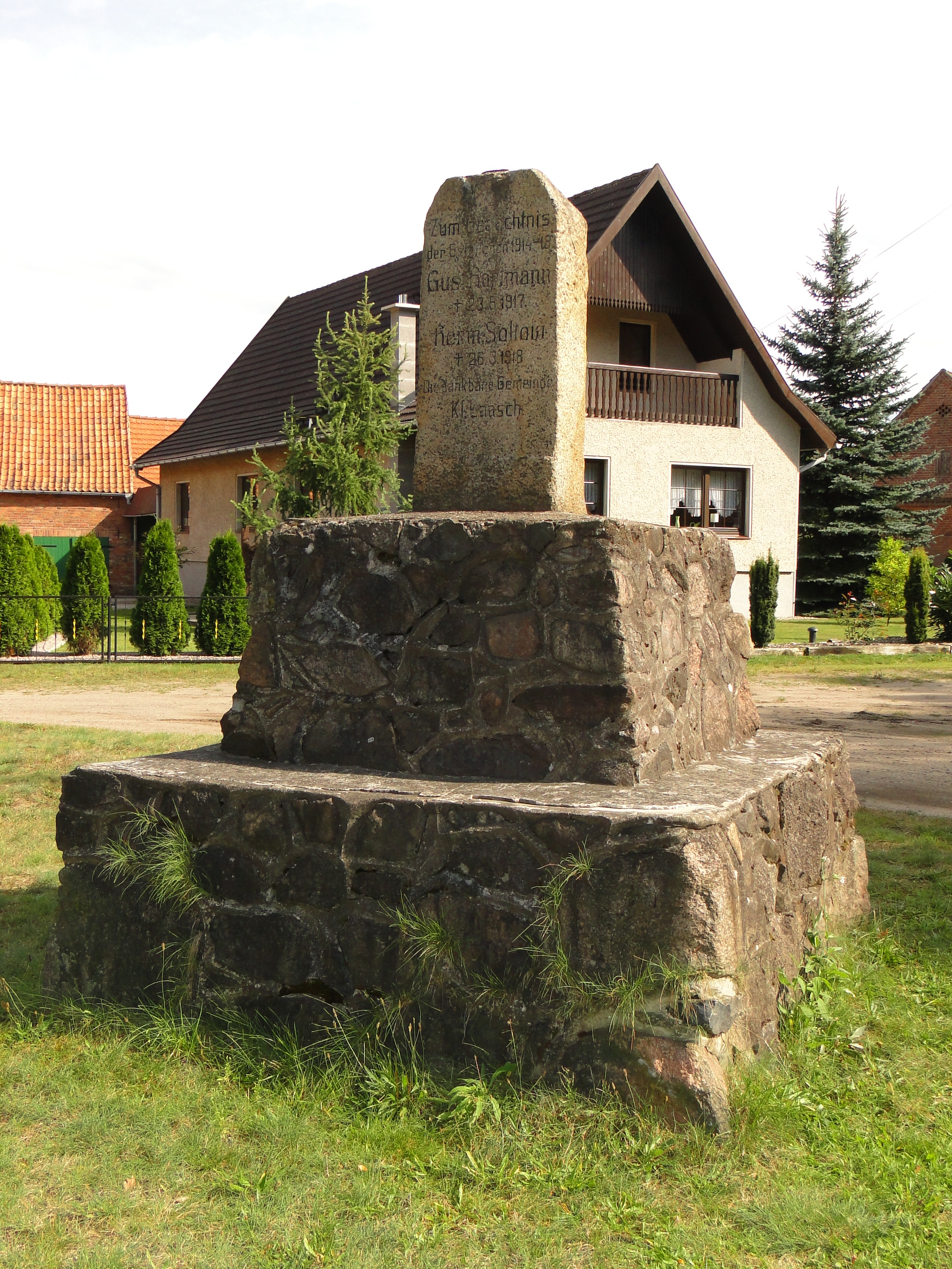 War memorial 1914-18 in Klein Laasch, district Ludwigslust-Parchim, Mecklenburg-Vorpommern, Germany